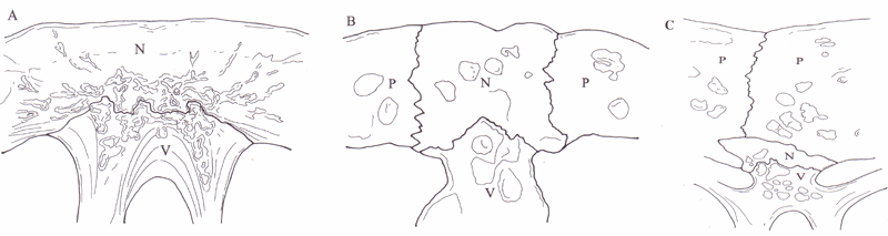 cross sections of the carapace of three species of turtle.